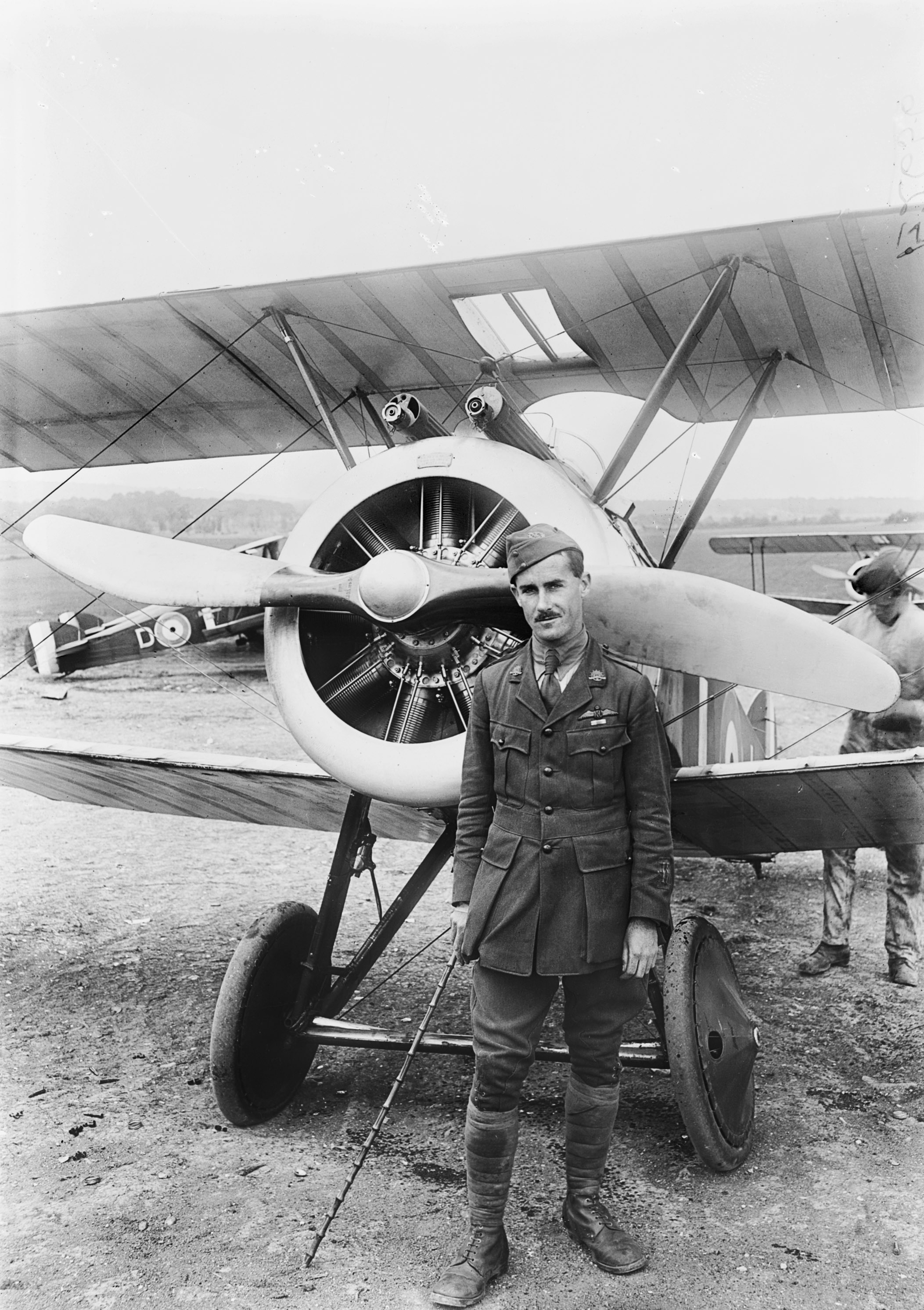 ID Number: E02656 Maker: Unknown Place made: Western Front: Western Front (France), Nord Region (France), Clairmarais Date made: 6 June 1918 Portrait of Major Wilfred Ashton McCloughry MC, Officer Commanding, No. 4 Squadron, Australian Flying Corps (AFC), in front of his Sopwith Camel aircraft. Rights Info: No known copyright restrictions. This photograph is from the Australian War Memorial's collection Persistent URL